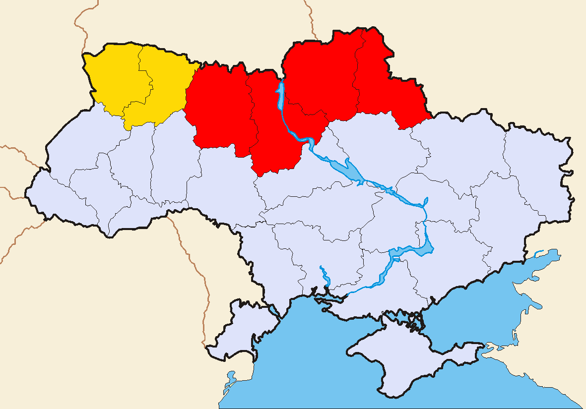 Northern Ukraine always sometimes